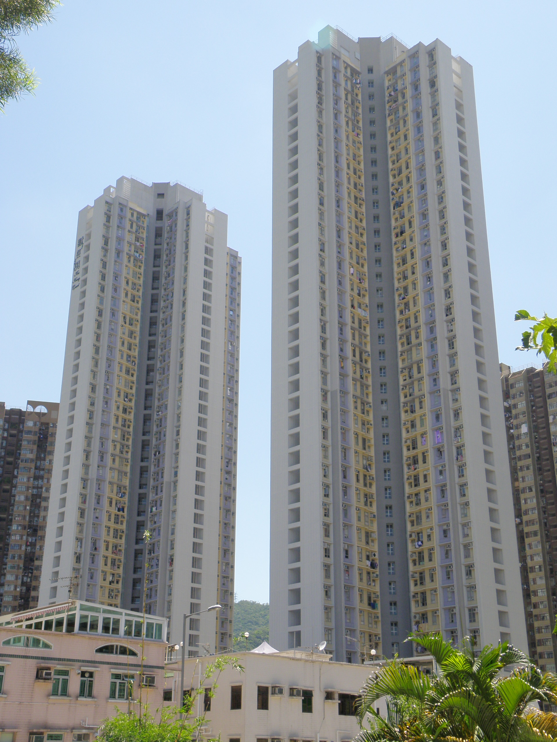 Ka Keng Court in Hin Keng, Hong Kong.